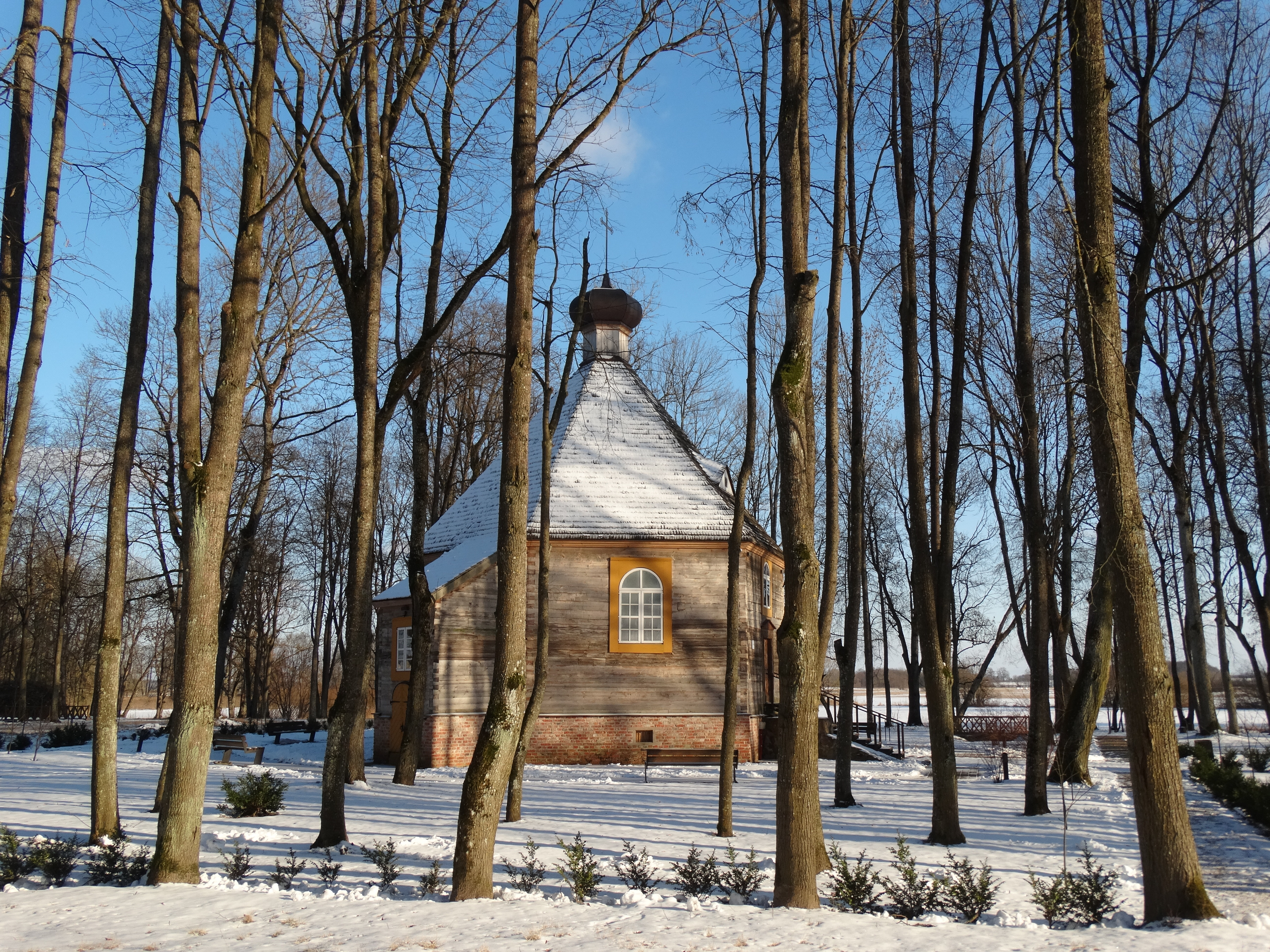 Chapel, Antanavas, Kazlų Rūda municipality, Lithuania